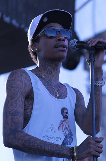 Wiz Khalifa at the Camp Bisco Day III in 2011.